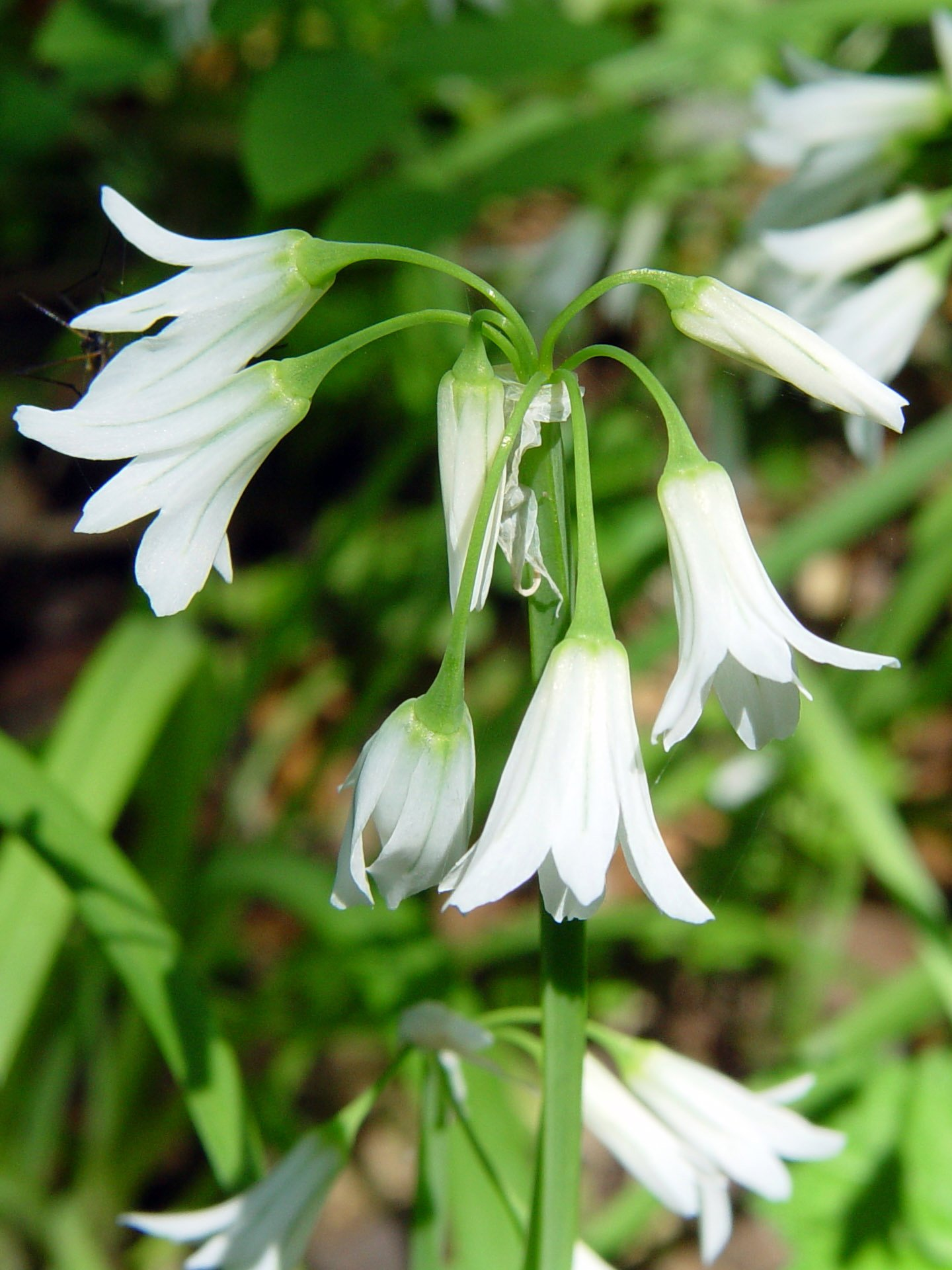 White-flowered Onion (Allium triquetrum) Family: Liliaceae Tennessee Valley, Golden Gate NRA Marin Co., CA ______ [Calflora]